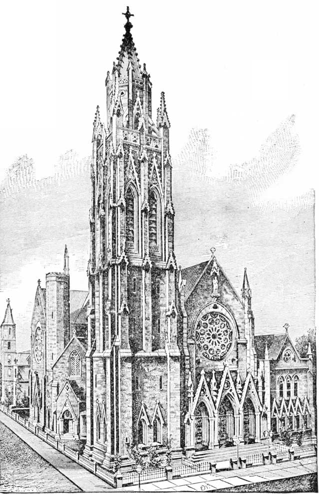 Scanned image from George Wolfe Shinn's King's Handbook of Notable Episcopal Churches in the United States (1889).